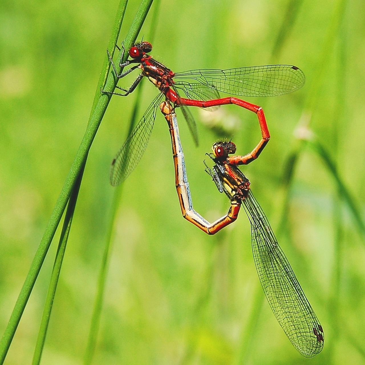 Pyrrhosoma nymphula in Belgium natural reserve Marie Mouchon (Ciney).